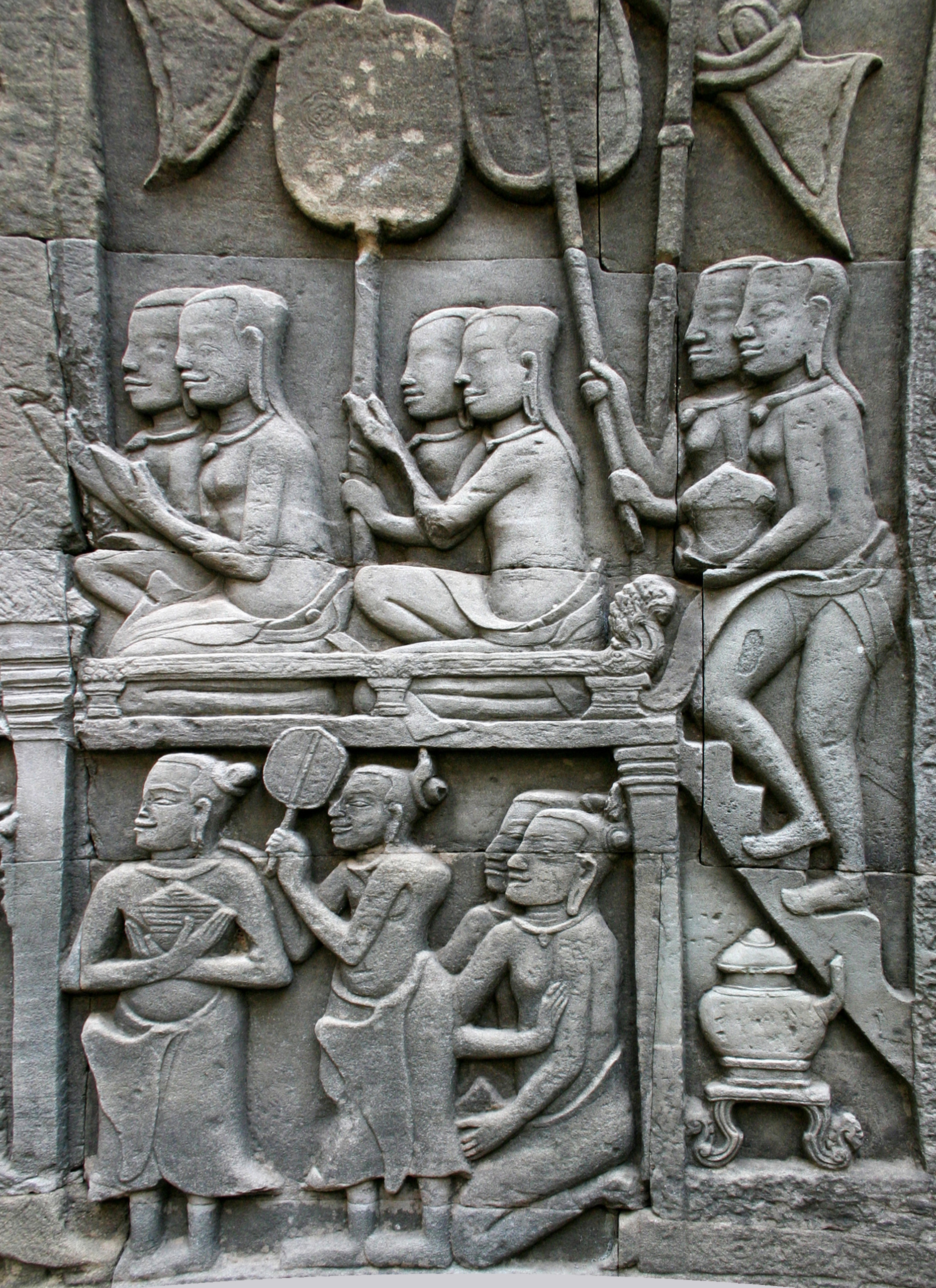 Bayon of Angkor Thom in Cambodia